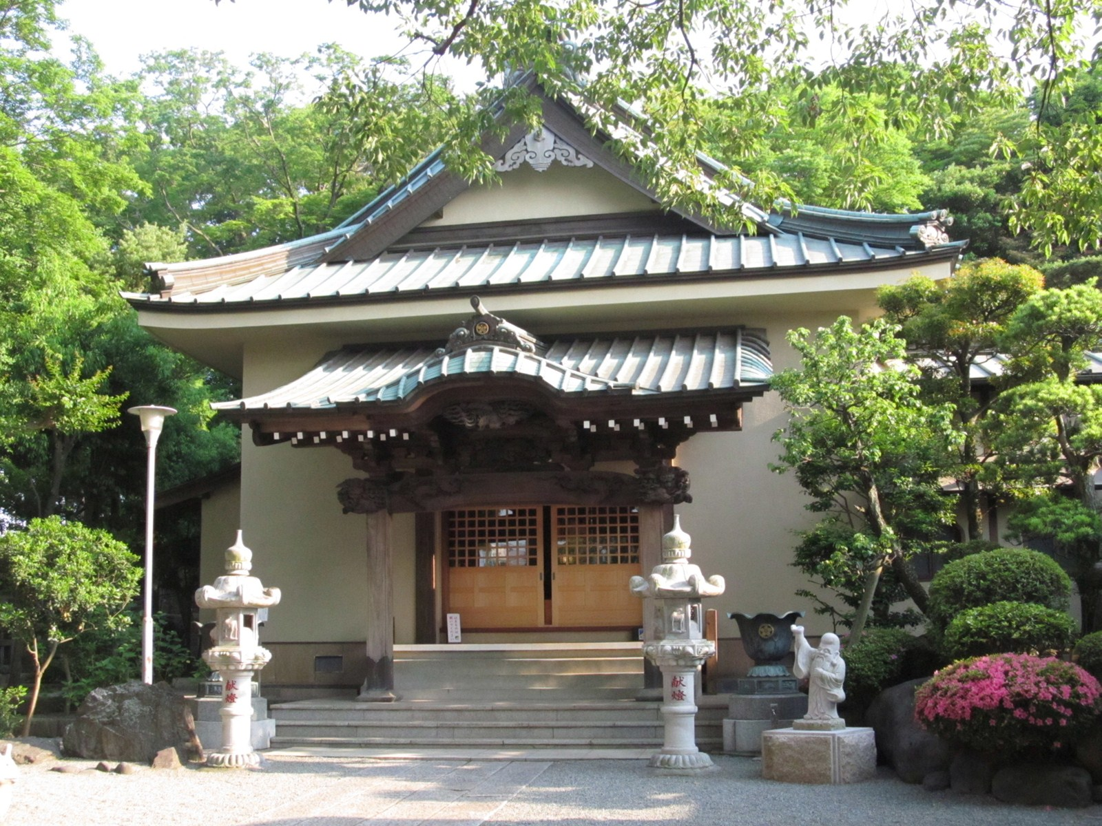 Jōkō-ji in Fujisawa City, Kanagawa Prefecture, Japan